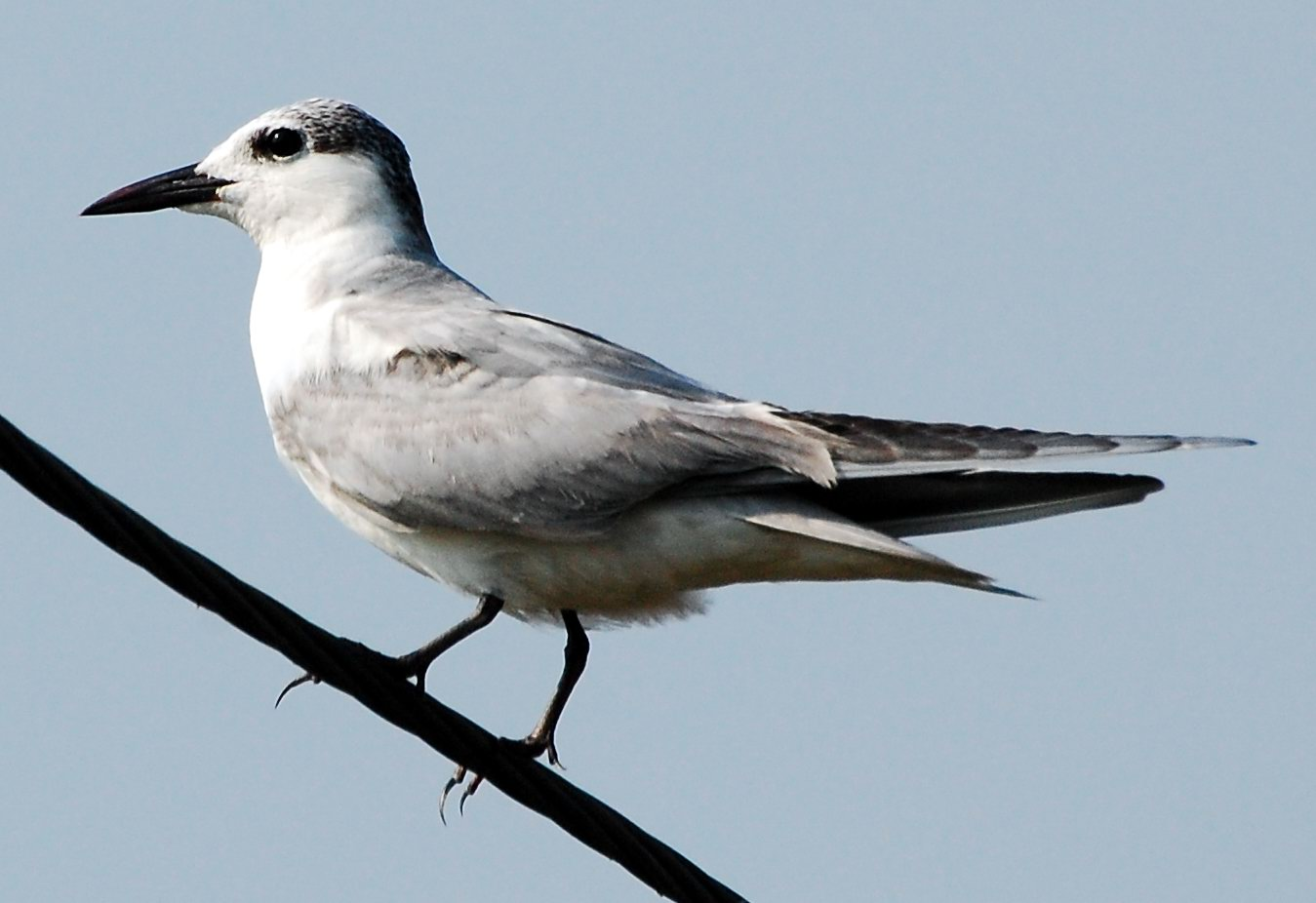 Whiskered tern (Chlidonias hybrida) shot at Thommana, chalakudy, Thrissur, Kerala.